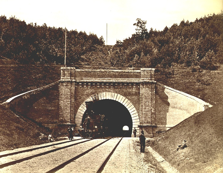 Railroad tunnel in Paneriai, Vilnius, Lithuania; Original caption: Railroad tunnel in Ponary